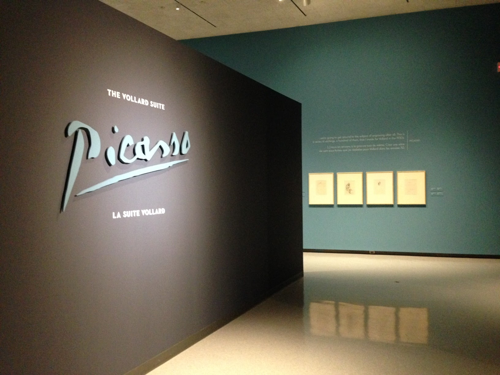 Vollard Suite, in two sprecial exhibitions: Picasso in Canada and Picasso: Man & Beast. The Vollard Suite of Prints. Winnipeg Art Gallery, Manitoba (2017)